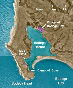 Bodega Harbor © 2004 Matthew Trump